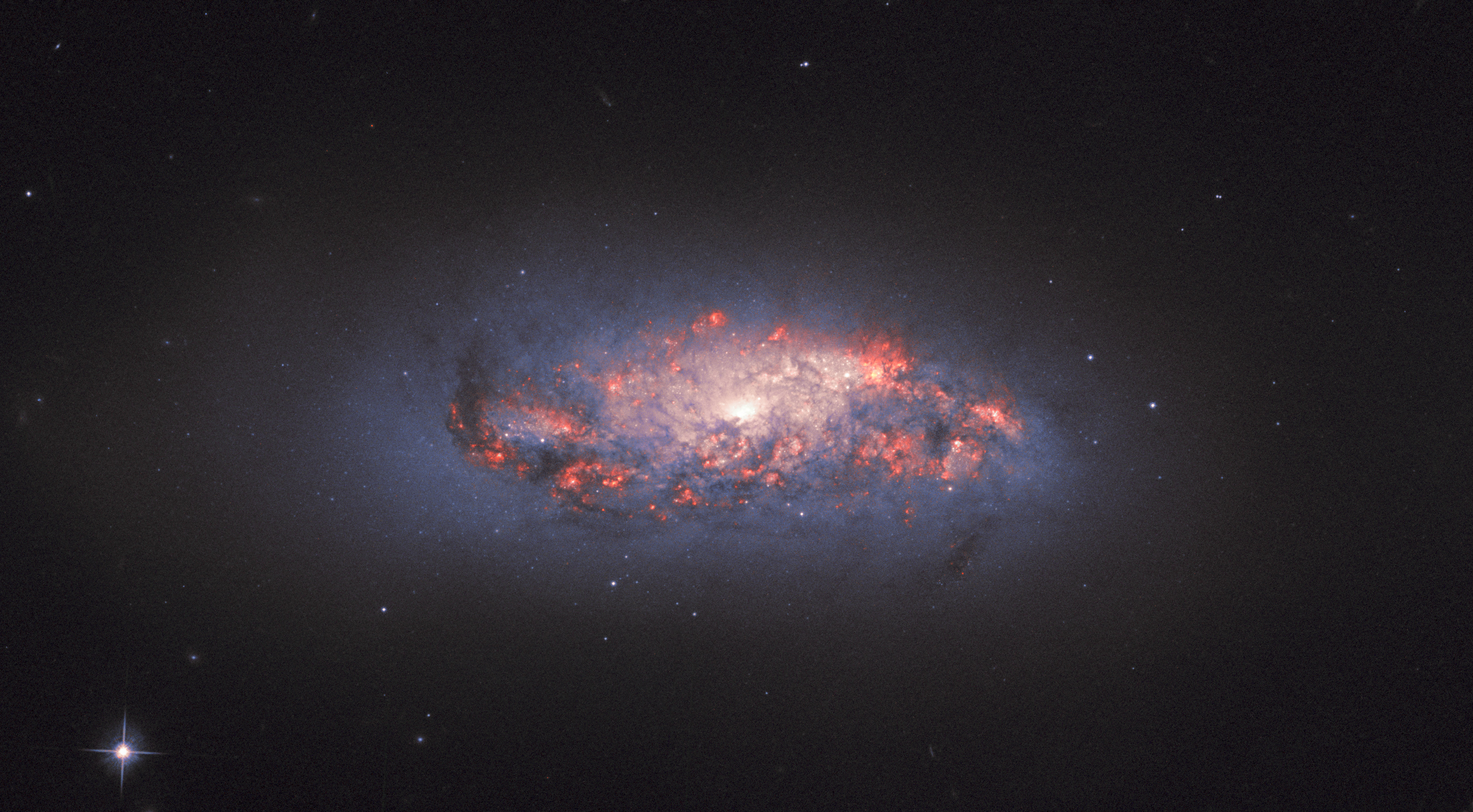 This NASA/ESA Hubble Space Telescope Picture of the Week shows bright, colourful pockets of star formation blooming like roses in a spiral galaxy named NGC 972. The orange-pink glow is created as hydrogen gas reacts to the intense light streaming outwards from nearby newborn stars; these bright patches can be seen here amid dark, tangled streams of cosmic dust. Astronomers look for these telltale signs of star formation when they study galaxies throughout the cosmos, as star formation rates, locations, and histories offer critical clues as to how these colossal collections of gas and dust have evolved over time. New generations of stars contribute to — and are also, in turn, influenced by — the broader forces and factors that mould galaxies throughout the Universe, such as gravity, radiation, matter, and dark matter. German-British astronomer William Herschel is credited with the discovery of NGC 972 in 1784. Astronomers have since measured its distance, finding it to be just under 70 million light-years.